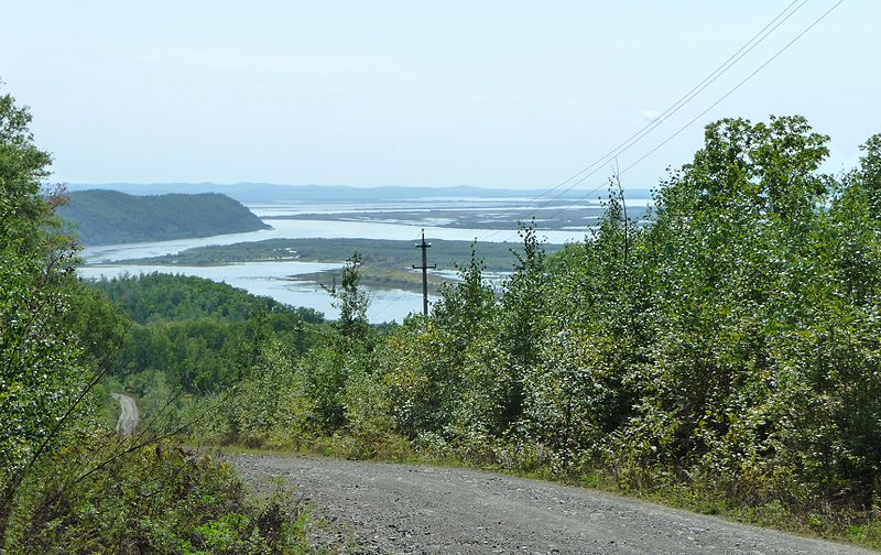 The Amur River near the Verkhnaya Ekon settlement (Khabarovsk Krai, Russia).